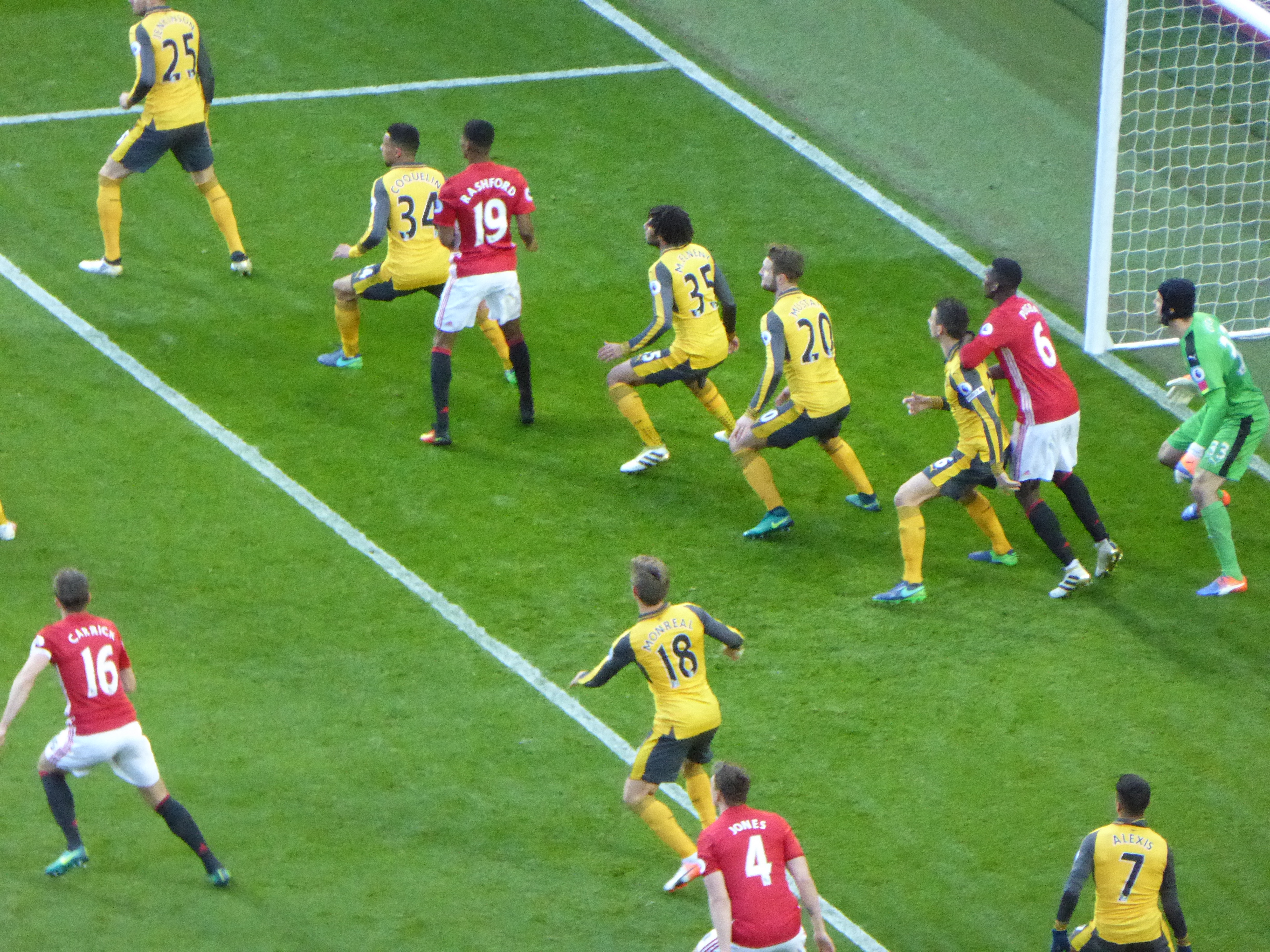 Manchester United v Arsenal (1-1), Premier League, Old Trafford, Manchester, Greater Manchester, England, November 2016